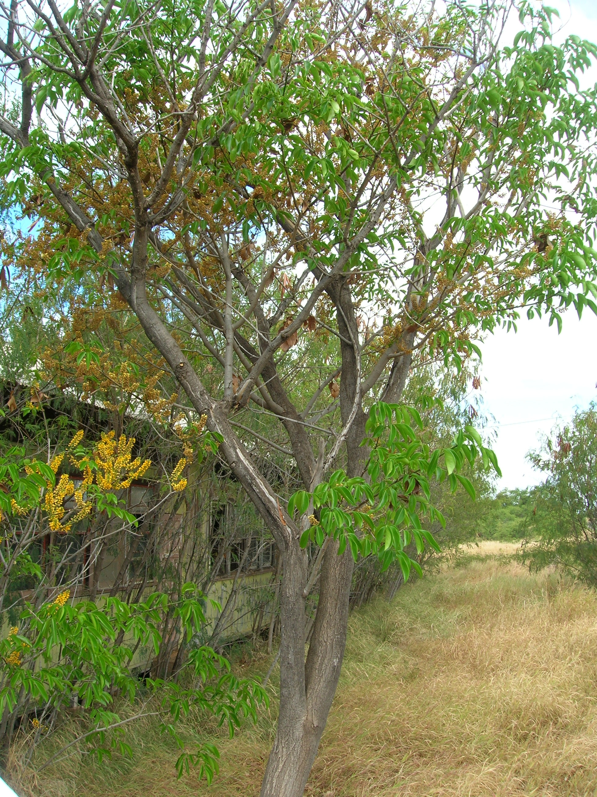 Platymiscium stipulare (habit). Location: Molokai, Kaunakakai